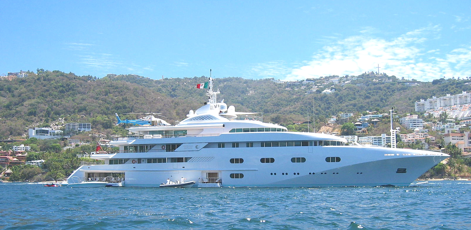 Yacht Princess Mariana in the bay of Acapulco on April 5, 2004